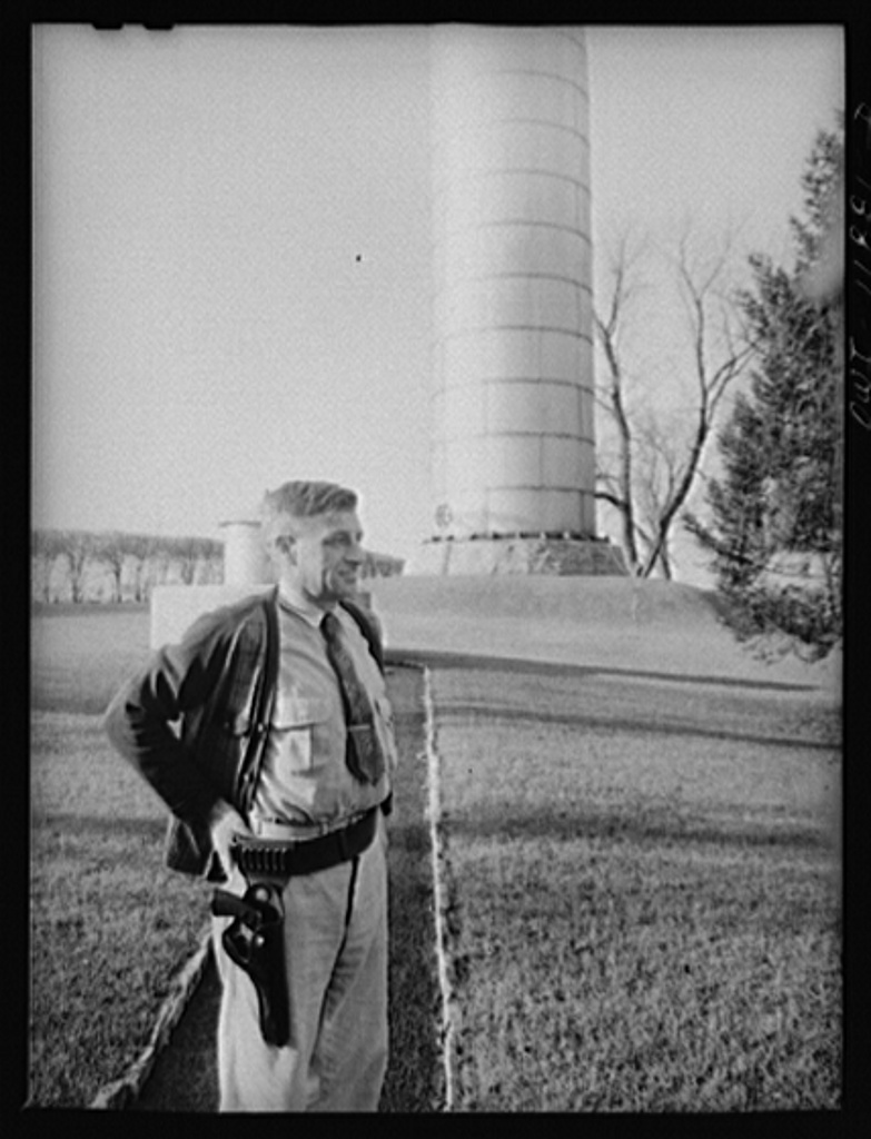 Lititz, Pennsylvania. Ralph Miller has guarded the Lititz water works for sixteen years, and has only recently carried a gun; this practice was voted as a defense measure by the city council